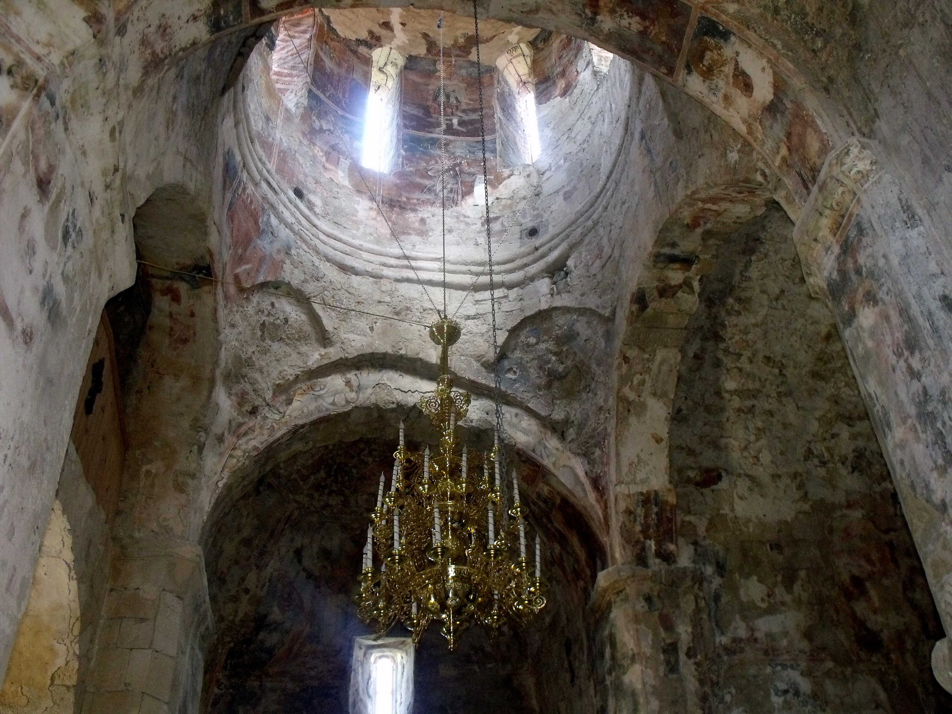 Tsaishi cathedral